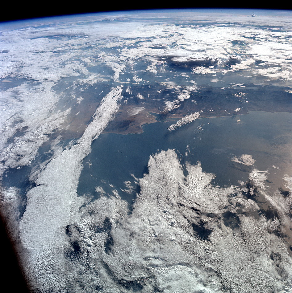 View of Earth from orbit. Baja Penninsula, San Ignacio Lagoon, Bellenas Bay.